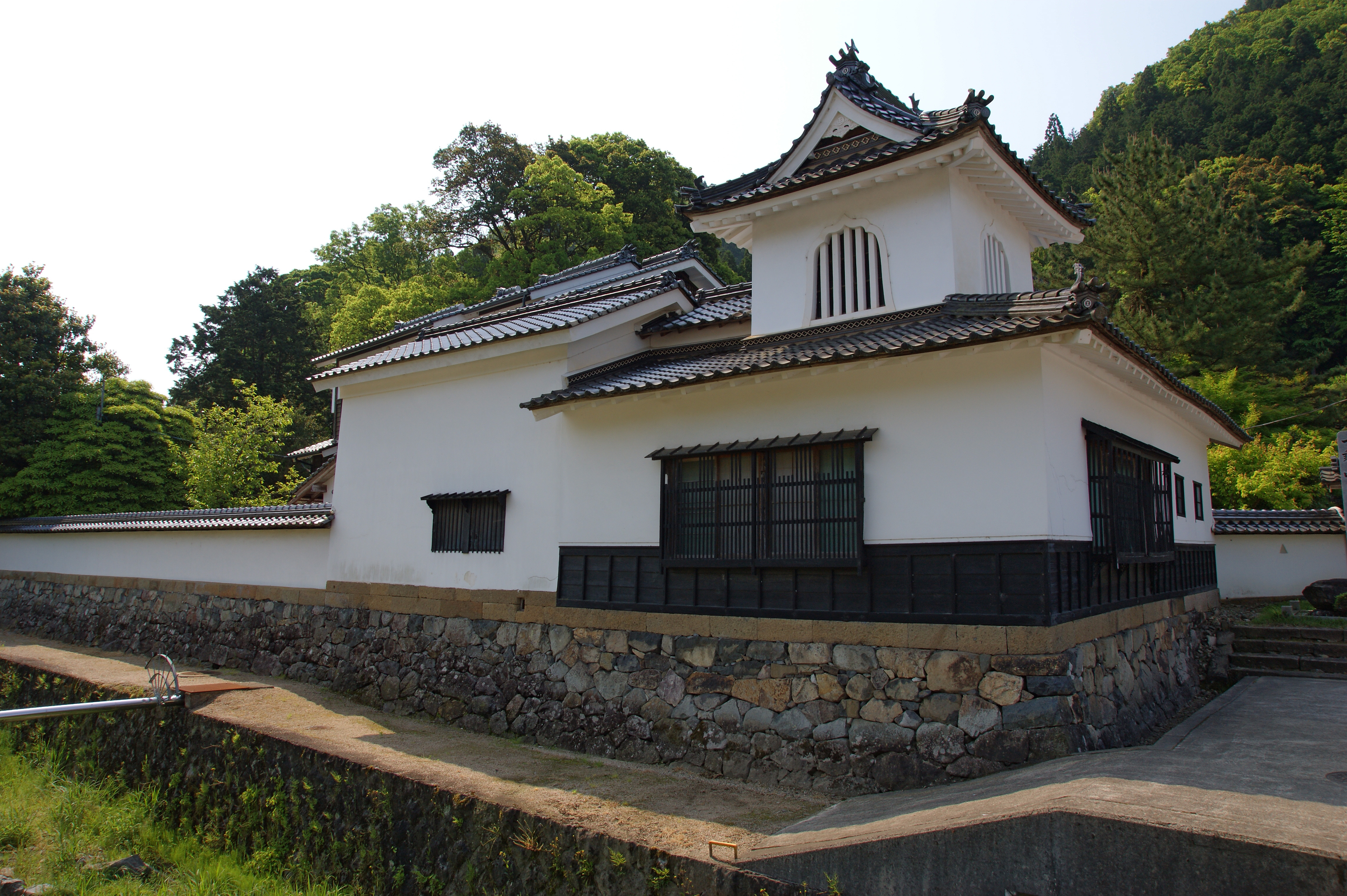 Kyooji in Izushi, Toyooka, Hyogo prefecture, Japan